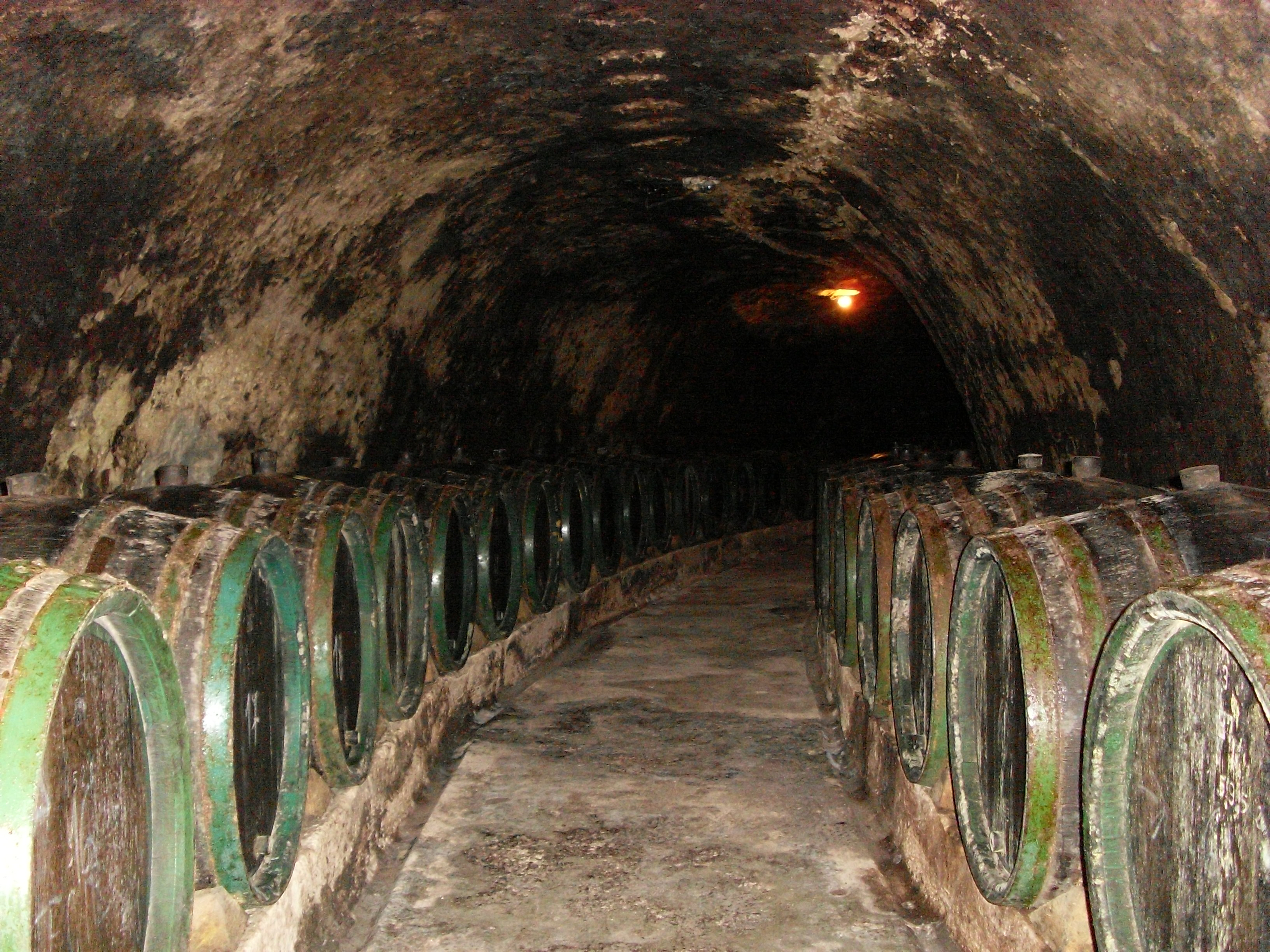 Cave of wine producer in Slovak Tokaj region /Tokaj & CO, s.r.o./